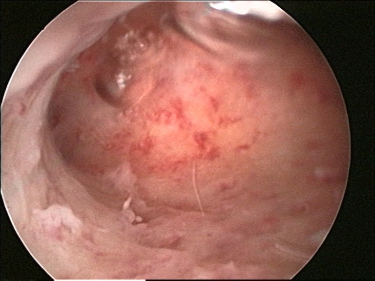 uterine cavity